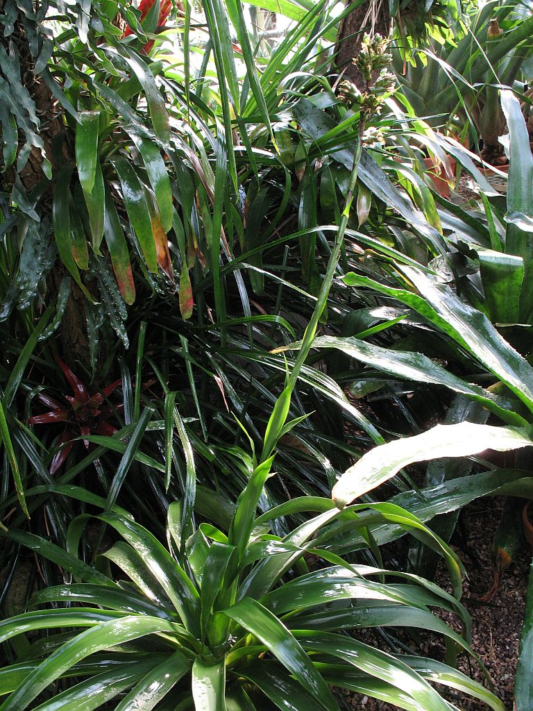 Guzmania alliodora, in cultivation at the Botanical Garden of Heidelberg, Germany.